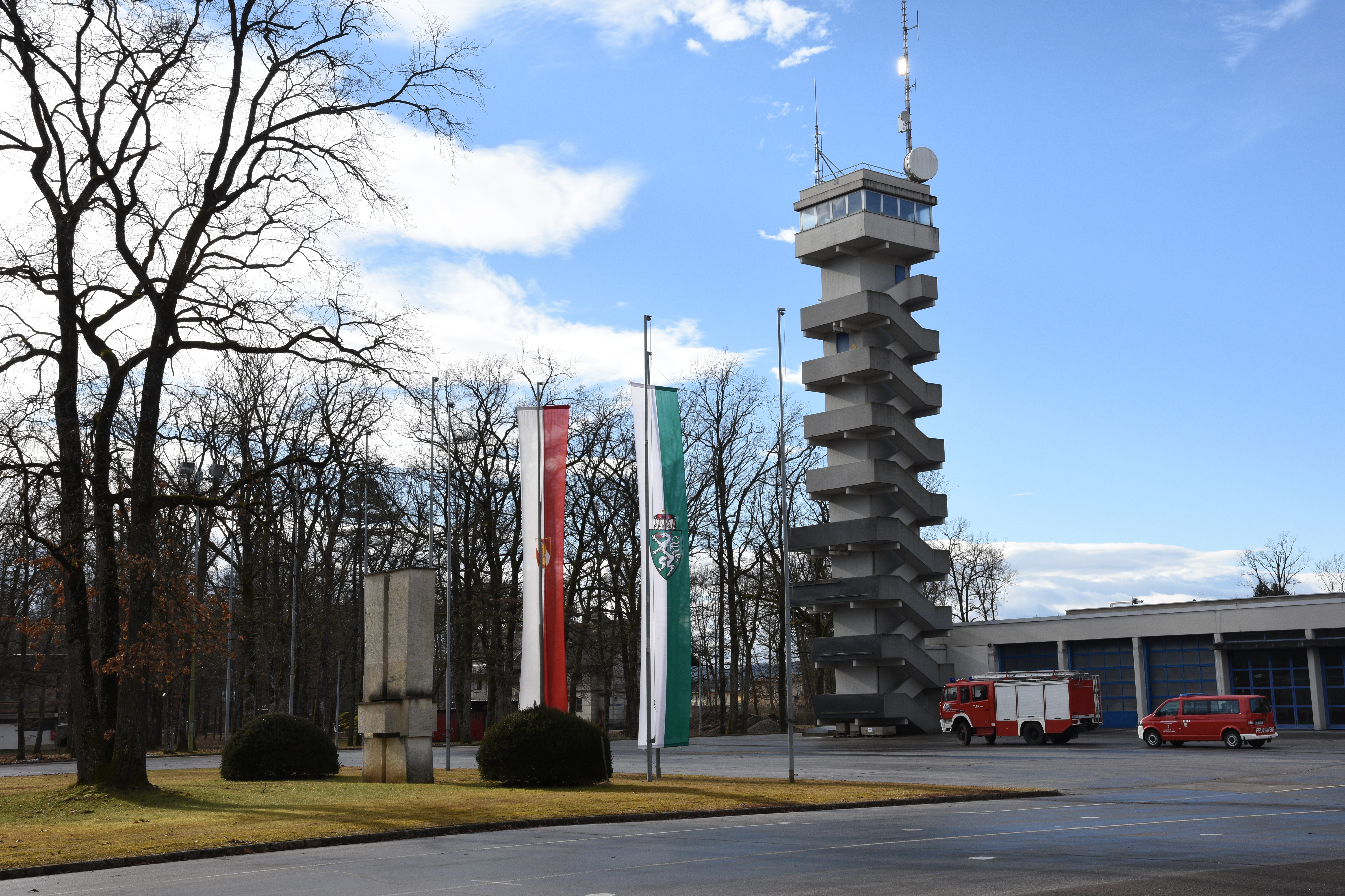 Firefighting training in Austria